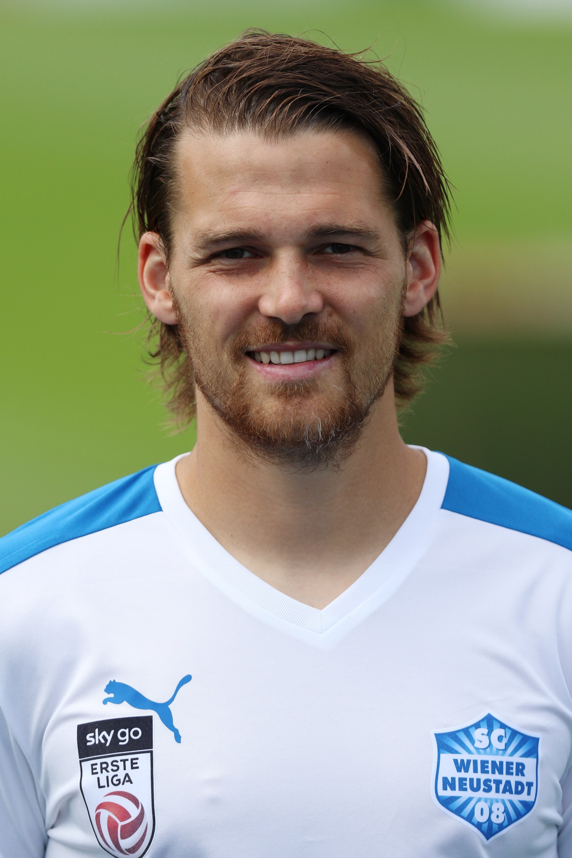 SC Wiener Neustadt squad presentation summer 2017. – The photo shows David Harrer.